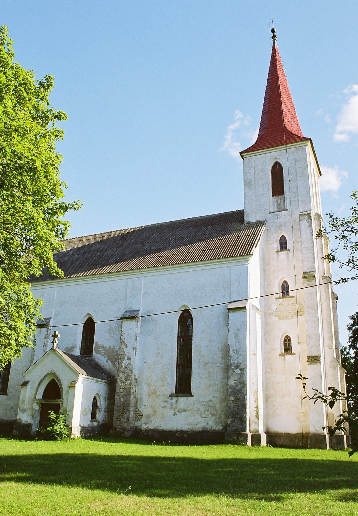 Mustjala church, 2006